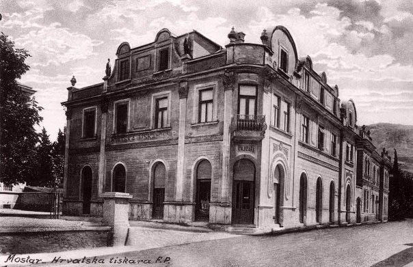 Prva hrvatska tiskara u Mostaru, u ulici Matije Gubca, 1920. godine